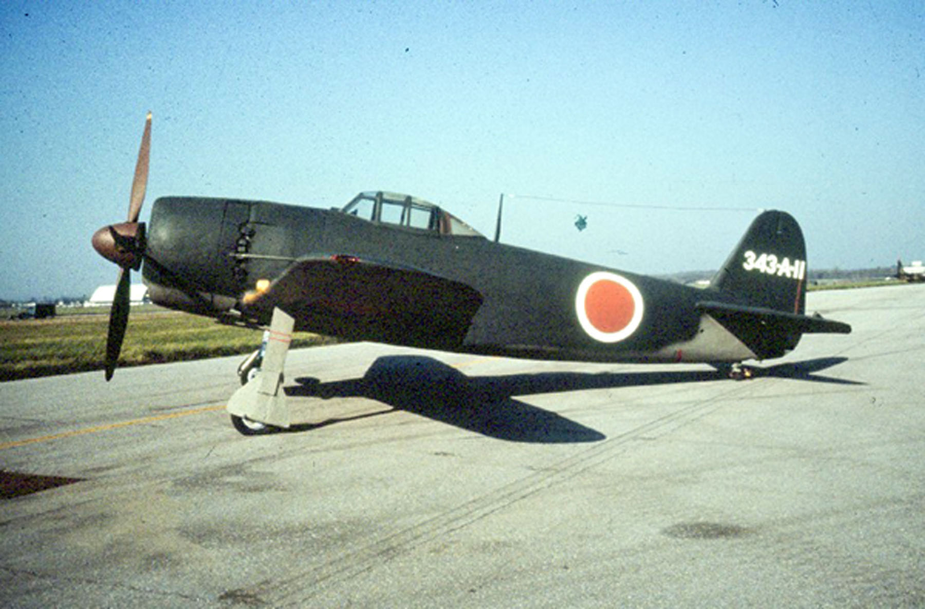 A Kawanishi N1K2-Ja Shiden Kai ("George") prior to restoration at the National Museum of the United States Air Force.